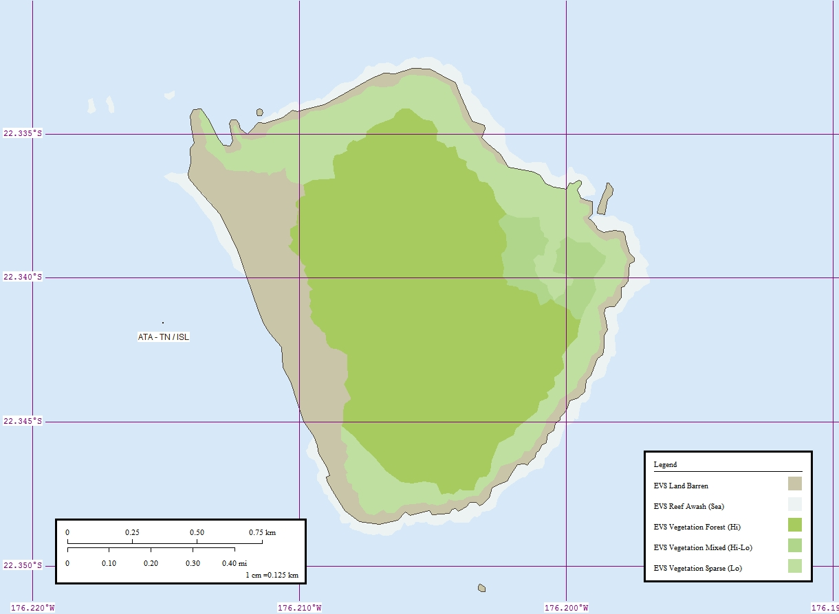 map of 'Ata Island, Tonga, Pacific Ocean